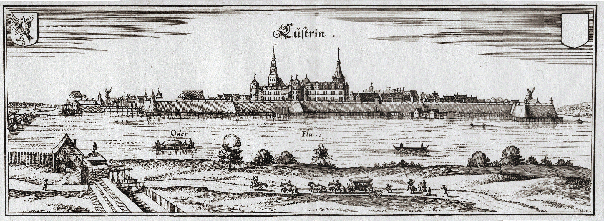 Kostrzyn on Merian's copperplate, year 1652